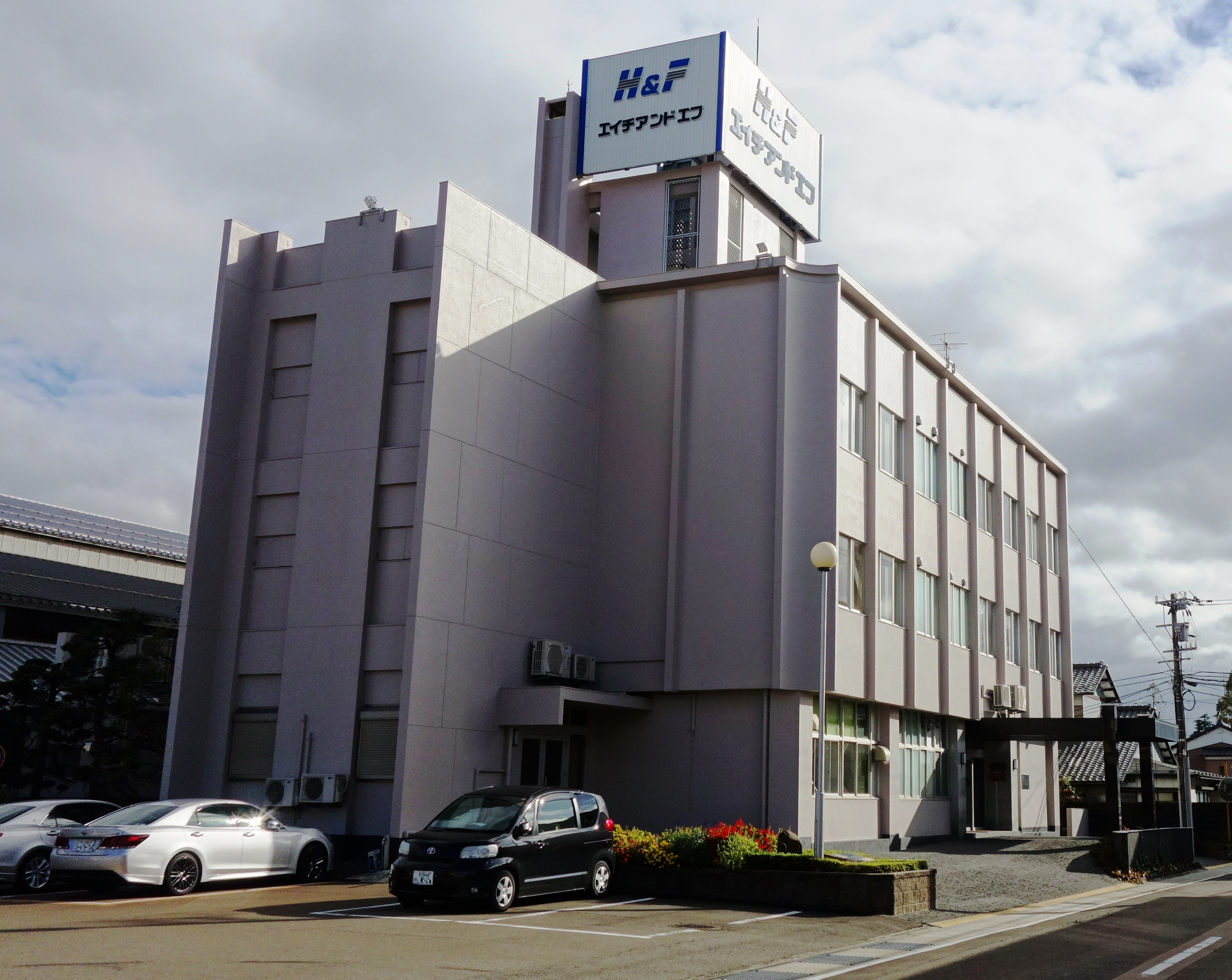 H&F Headquarters, Awara City, Fukui Pref., Japan